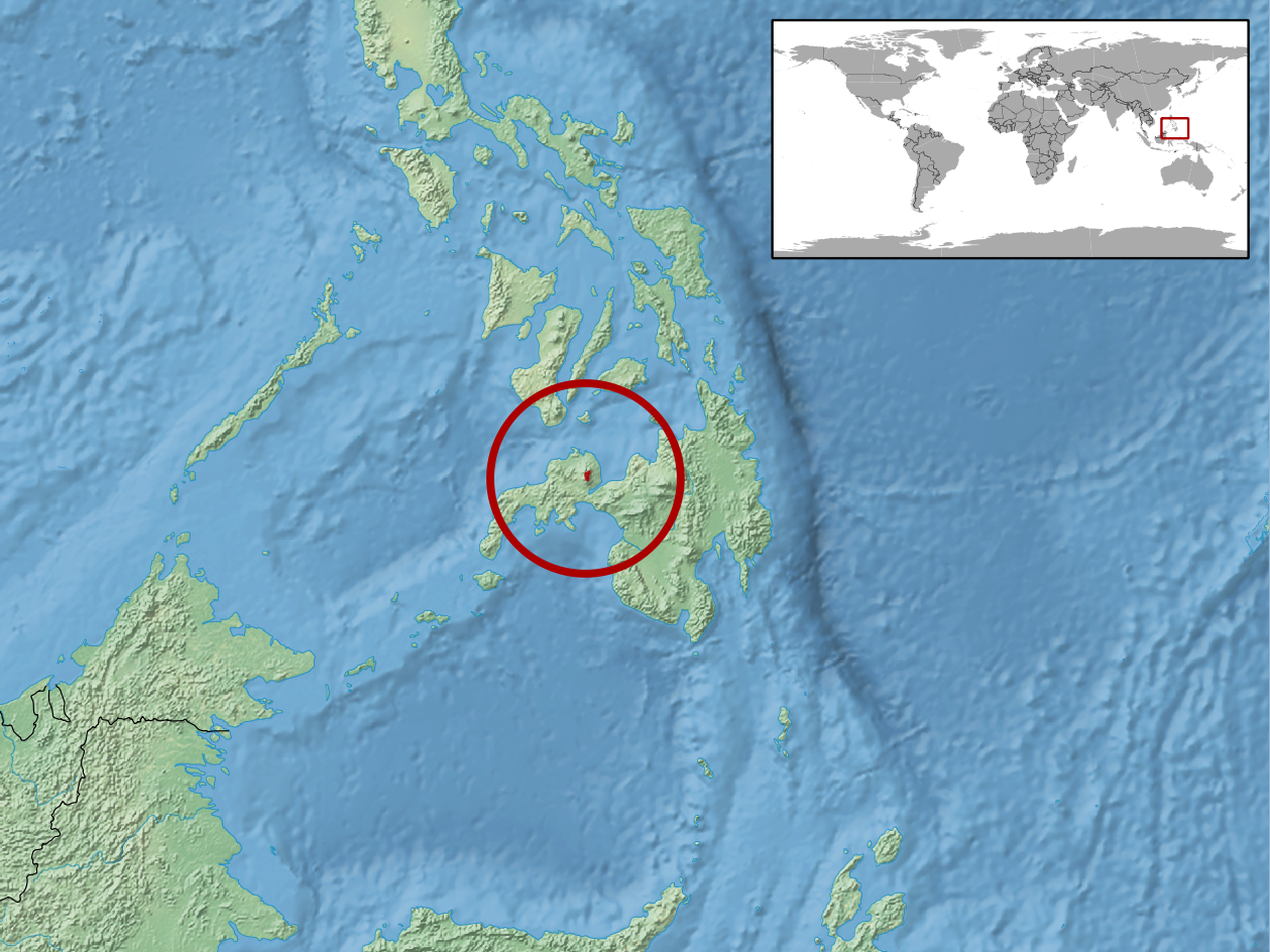 geographic distribution of Lipinia zamboangensis